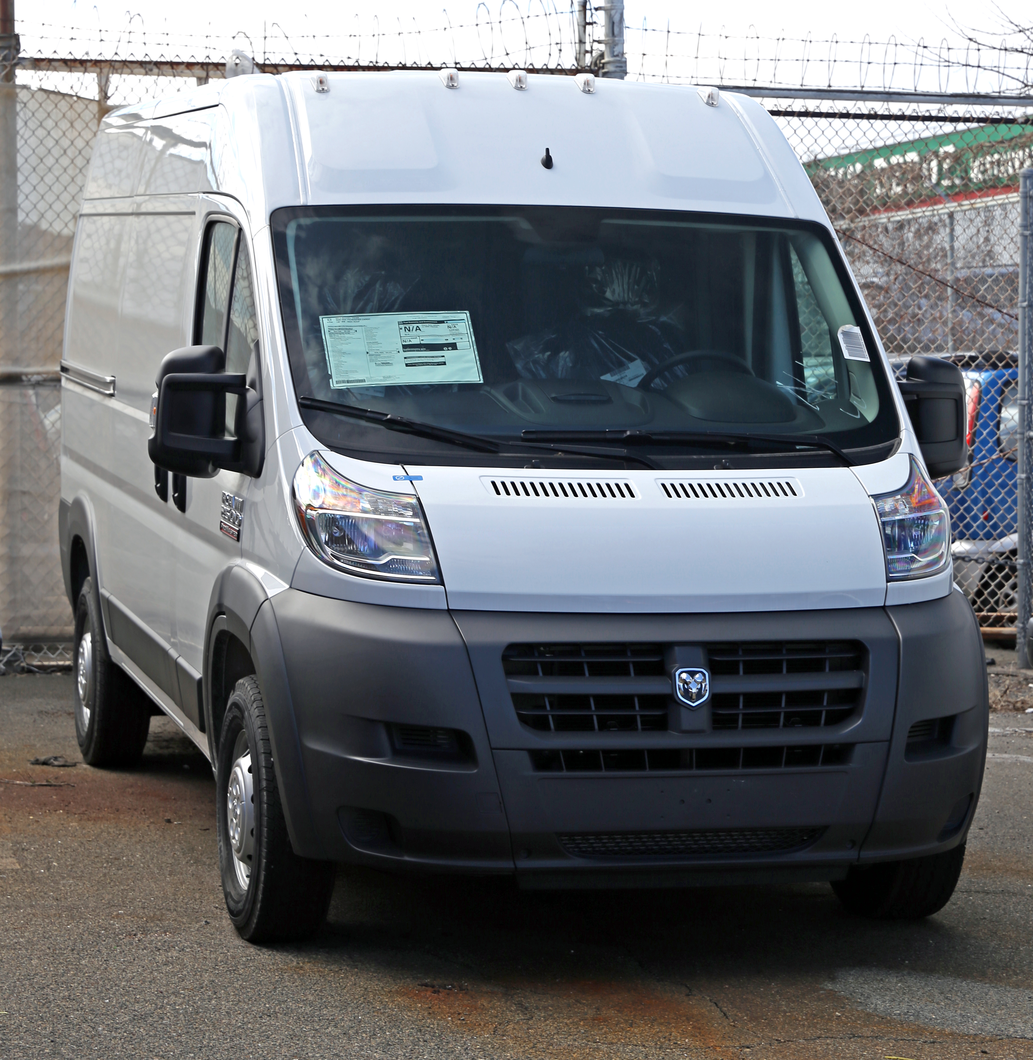 A 2014 Ram 2500 ProMaster Cargo High Roof on the 136 in (3,450 mm) wheelbase. Built in Saltillo, Mexico, and with the petrol 3.6 litre Pentastar V6 engine.